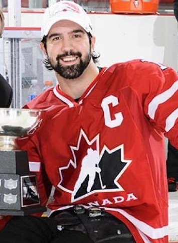 Team Canada won the 2013 Para Cup in Toronto, Ontario. Greg Westlake is presented with the trophy after the game.